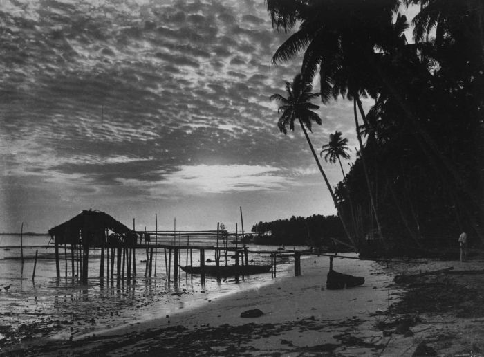 Pile house on the beach at night